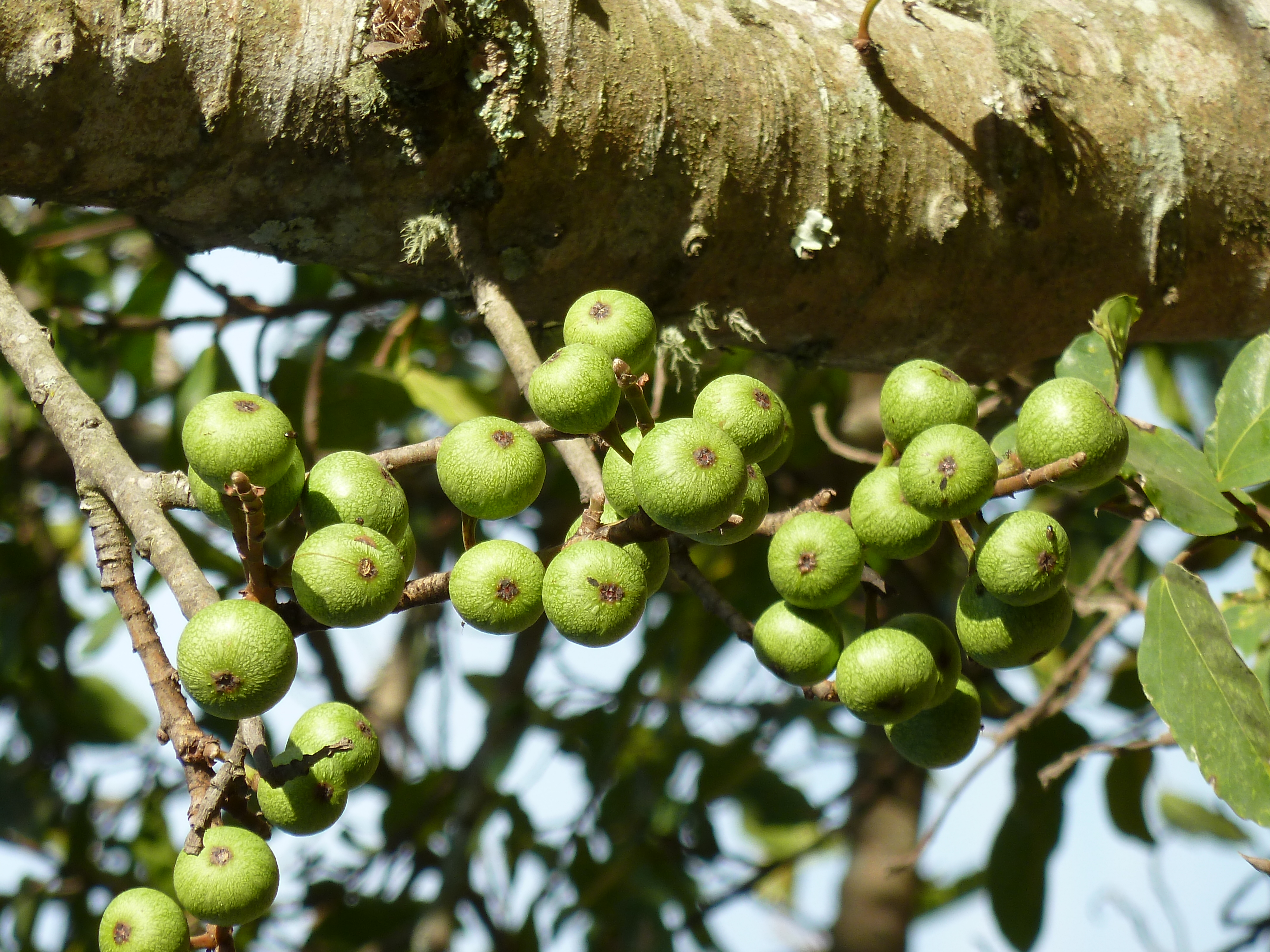 Fig cluster on a Cape fig, near Louwsburg, KwaZulu-Natal